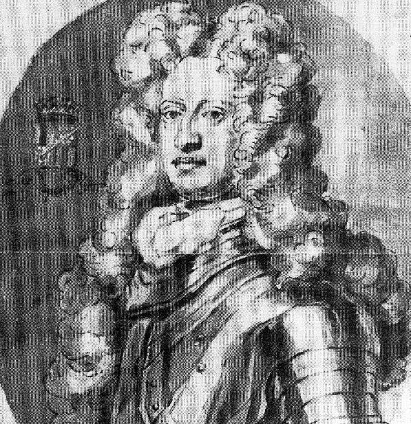 John Erskine, 6th Earl of Mar